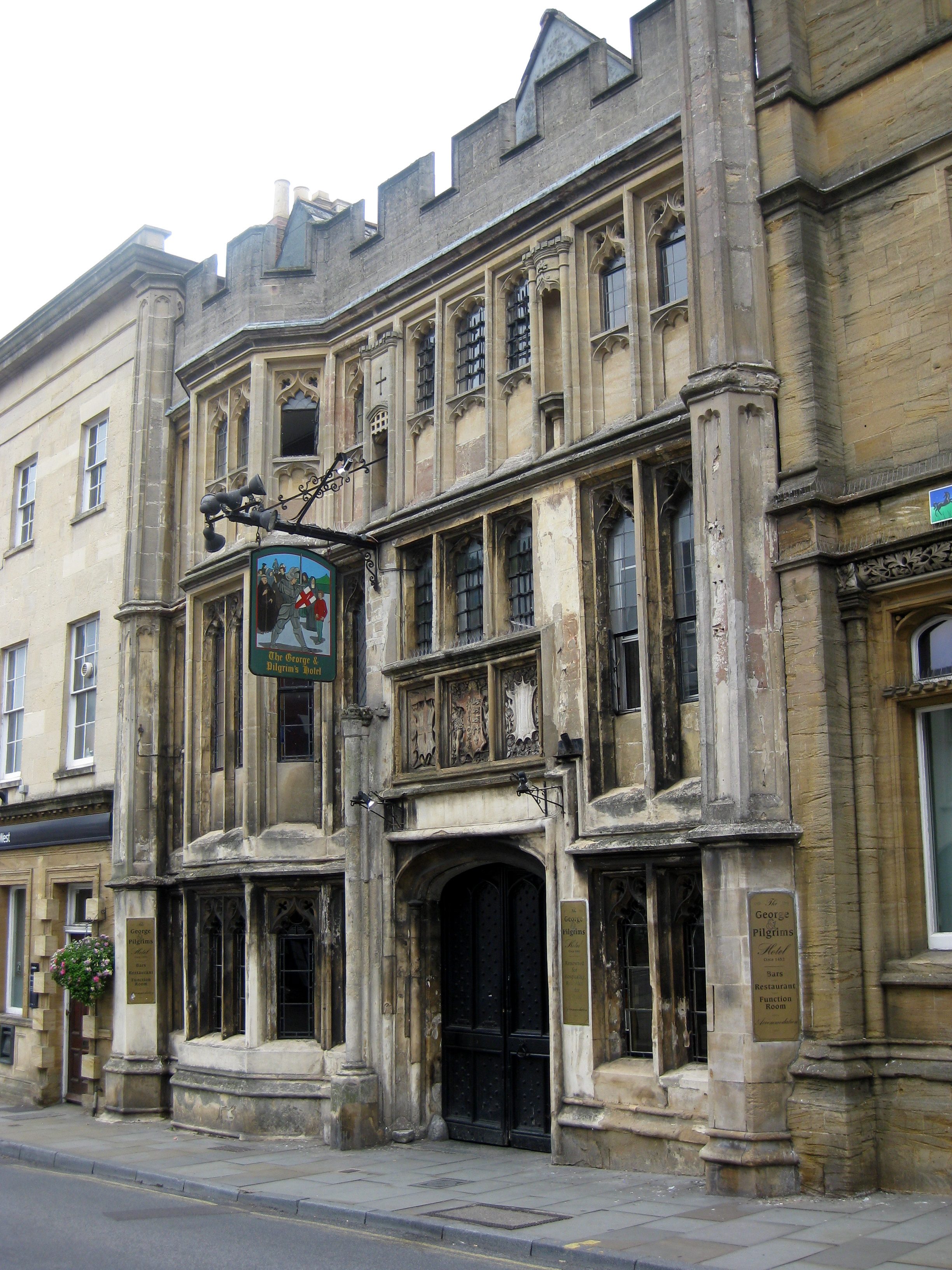 George Hotel and Pilgrims' Inn, Glastonbury, Somerset, UK